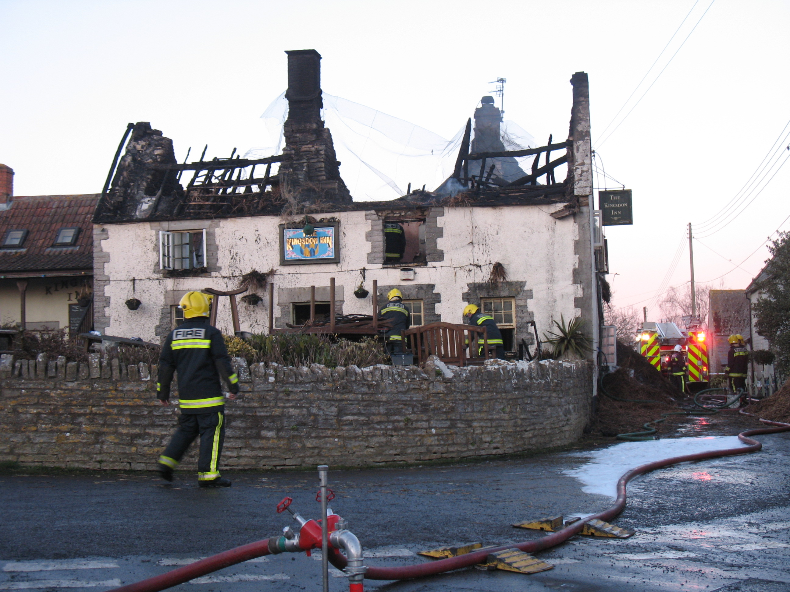 Kingsdon Inn fire evening 4th March 2010 19.22 Smoke clears to reveal the full scale of the damage and firemen continue to damp down. The popular Kingsdon Inn is very much at the heart of this village and the loss of the pub is a shock to all.